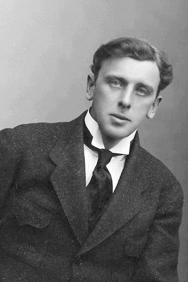 Portrait photo of Russian actor of Polish origin Vitold Polonsky (photo about the 1910s)